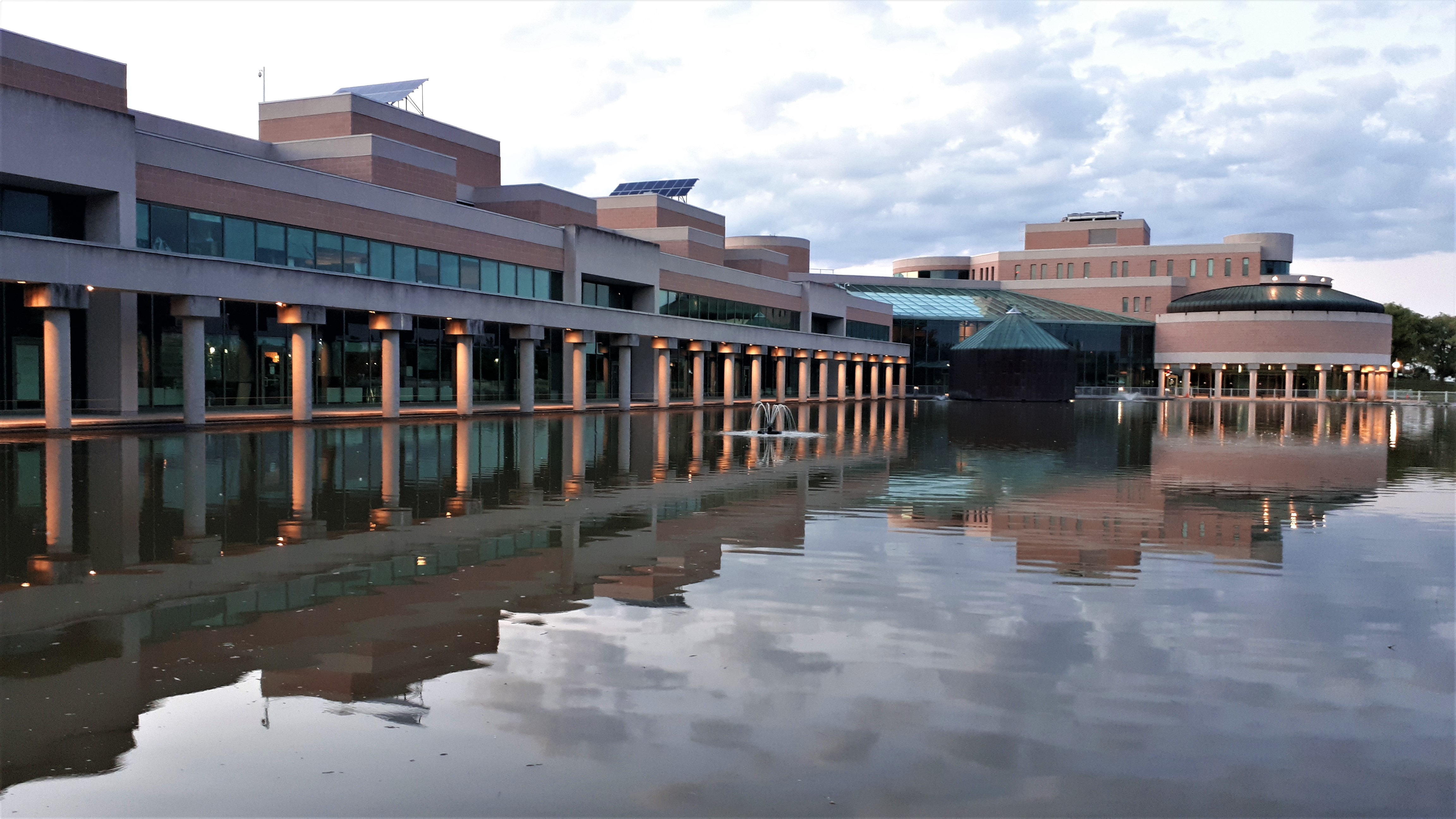 Markham Civic Centre -Markham- Ontario